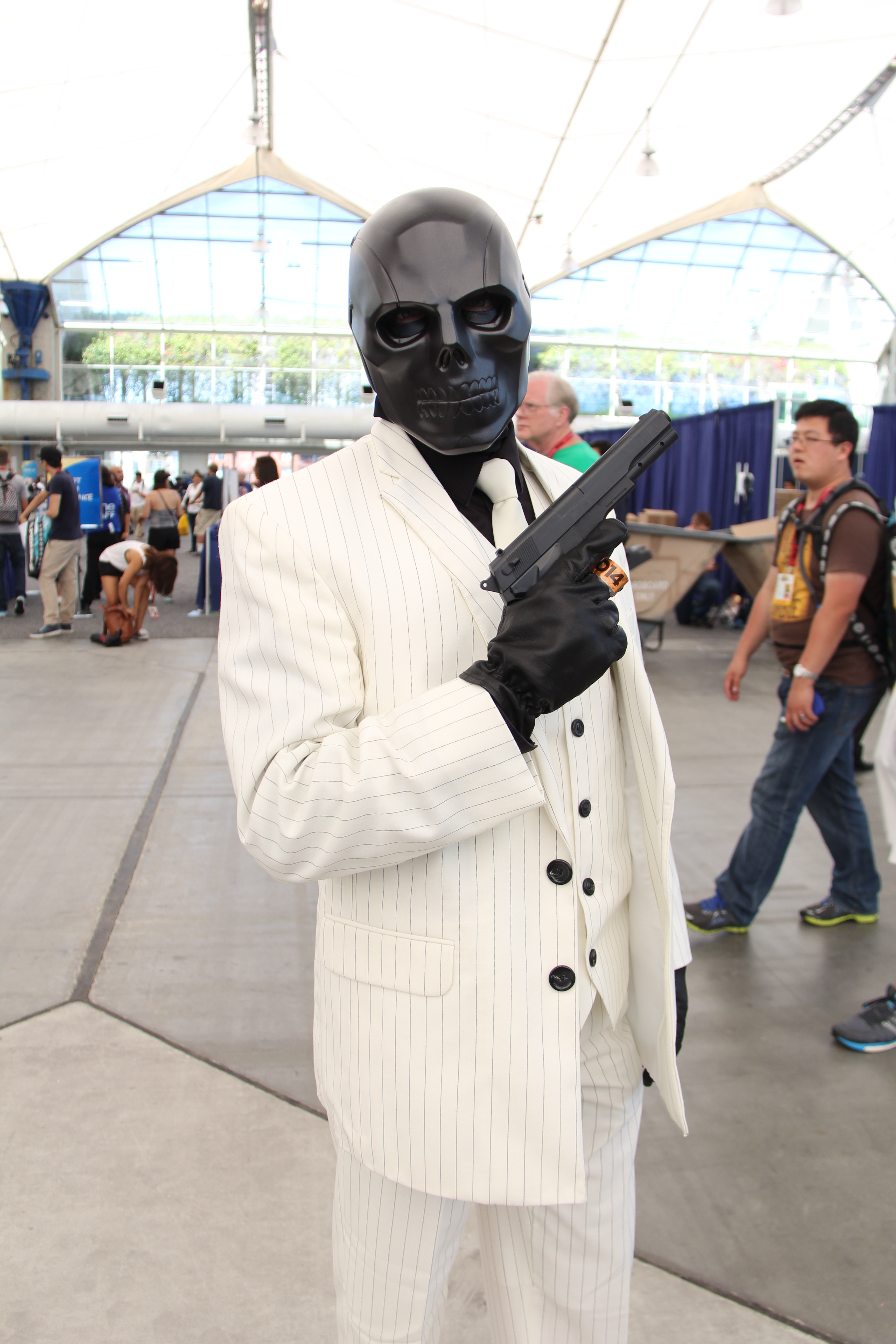 Cosplay of the Batman villain Black Mask Cosplay at San Diego Comic-Con (SDCC 2014).